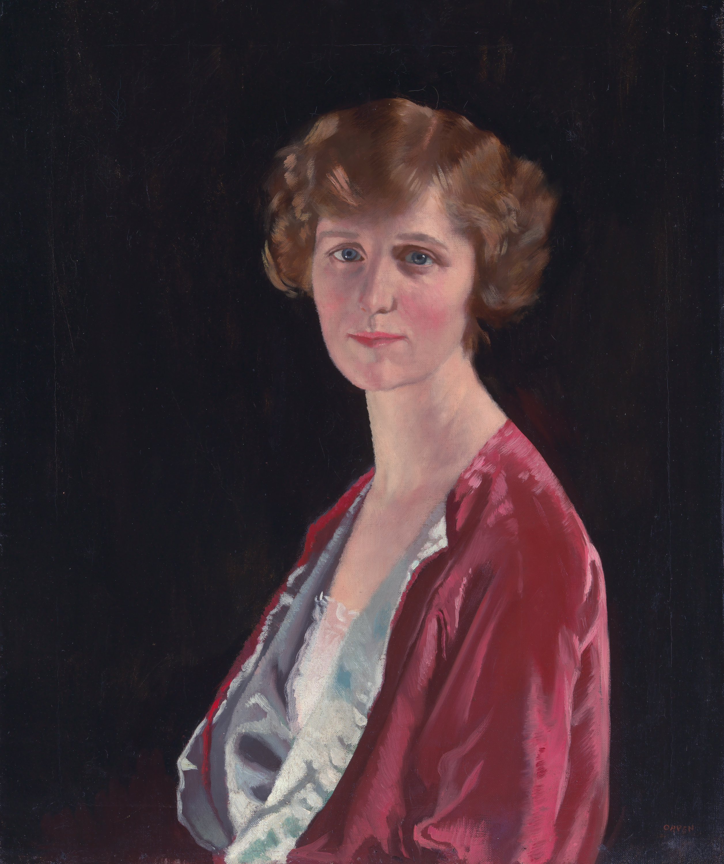 Evelyn Marshall Field (Mrs. Marshall Field III) oil on canvas 76.2 x 63.5 cm signed l.r.: ORPEN